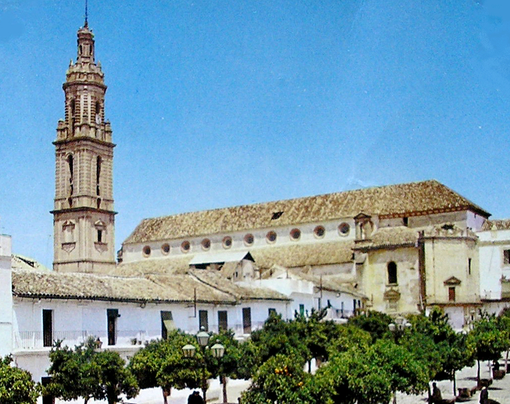 Catedral de la Campiña, Bujalance